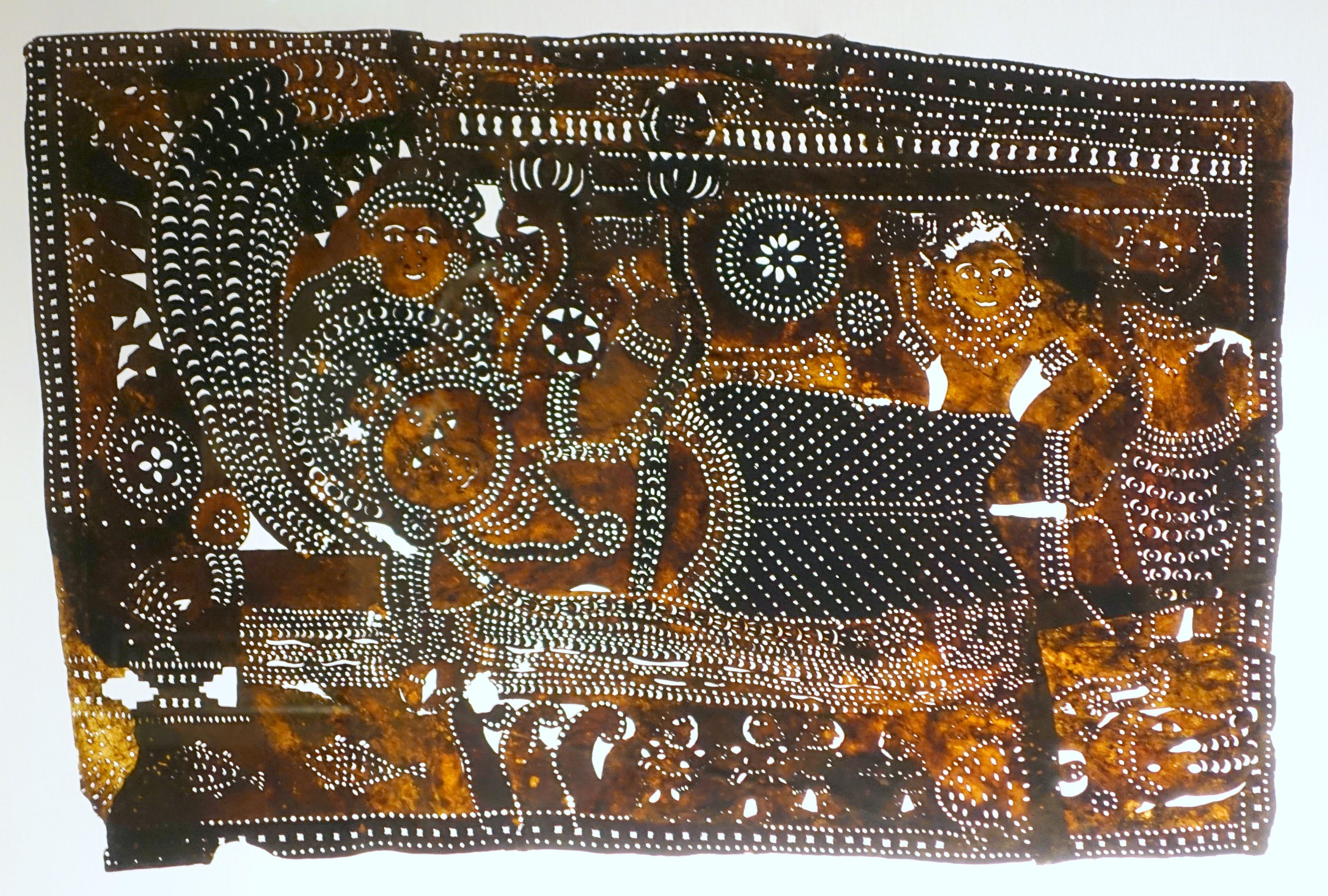 Exhibit in the Museu do Oriente - Lisbon, Portugal. This work is old enough so that it is in the public domain.